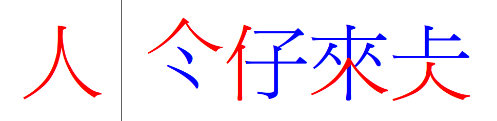 The 38th radical from the Kangxi Dictionary is formed by two strokes: ⼈ which form together the character that means 'human'.